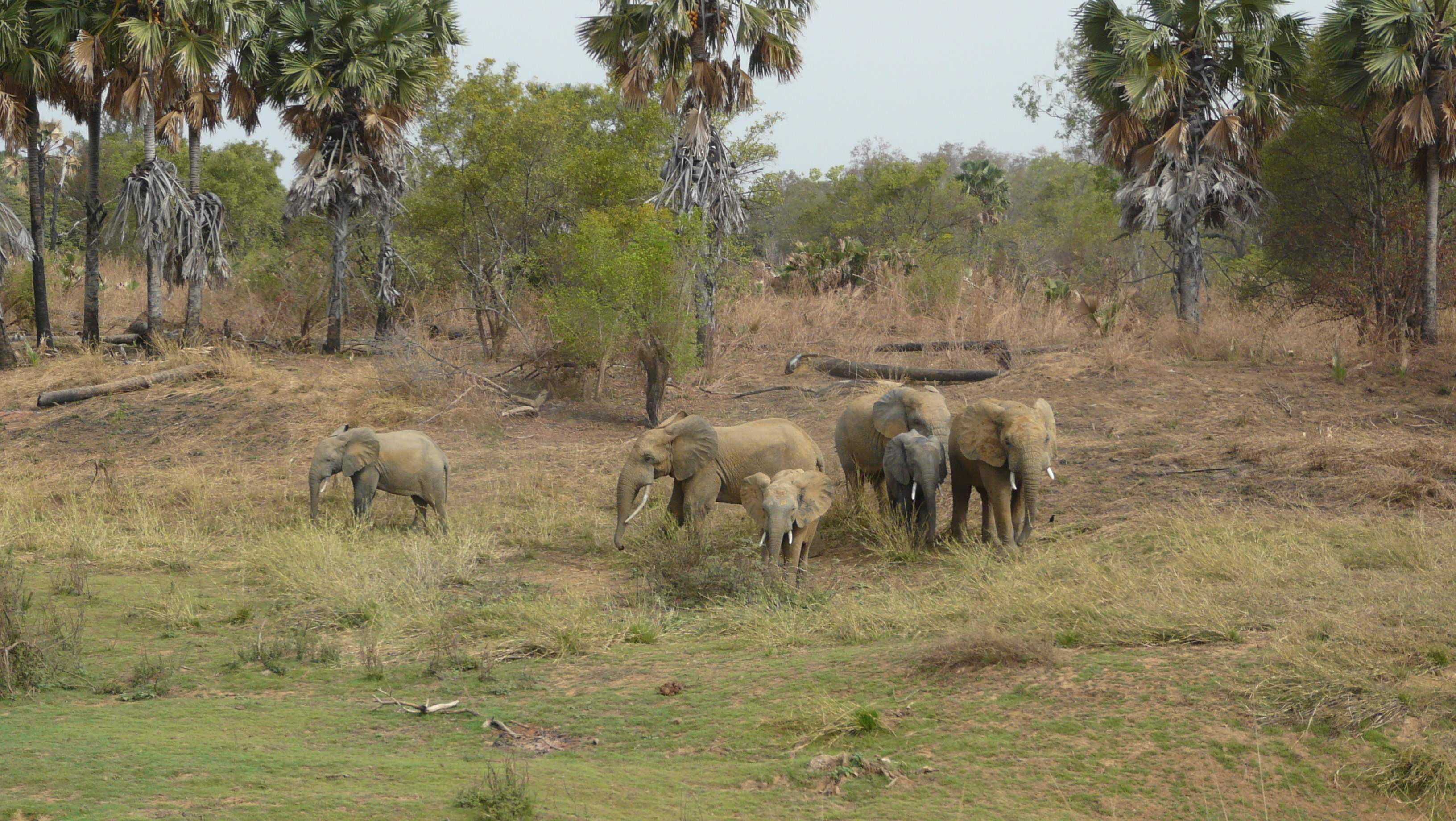 Elephants at Pendjari National Park